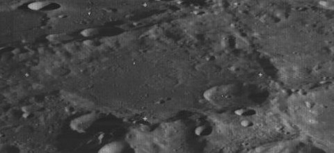 Oblique view of Hildegard crater, on the far side of the moon, facing roughly south.